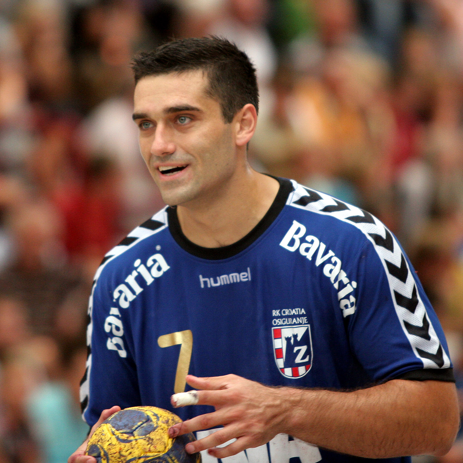 Kiril Lazarov, Macedonian handball player, playing for RK Zagreb, on August 22nd, 2009 in Ehingen (Germany), during the Schlecker Cup 2009.